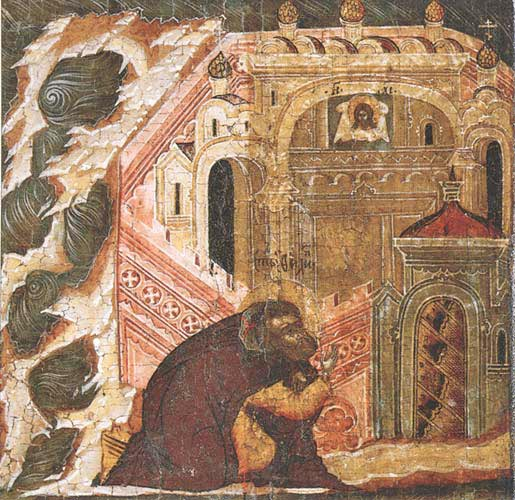 Phillip at the Solovetsky monastery